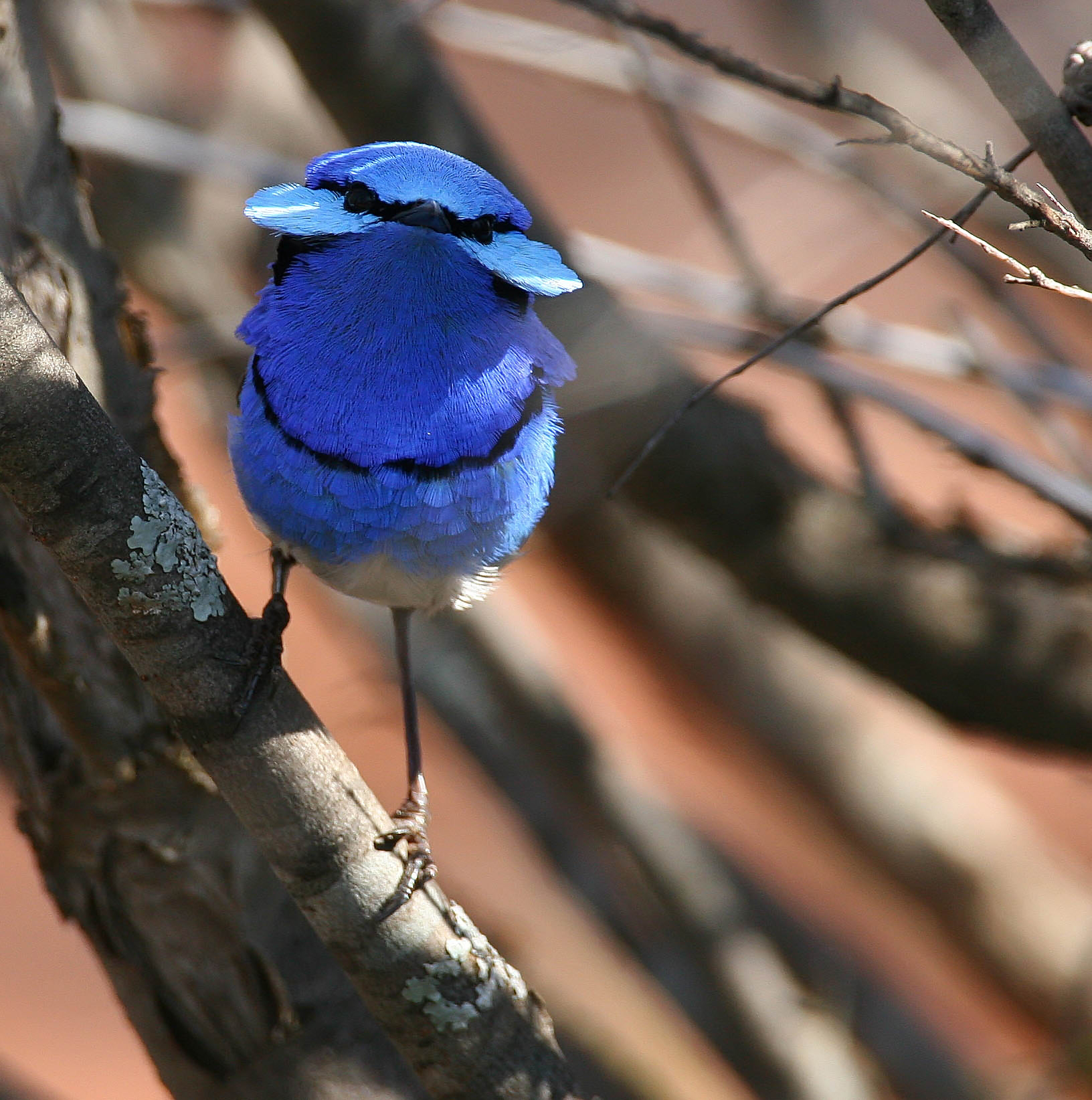 Splendid_Fairy_Wren_-_Lake_cargelligo, Face Fan display